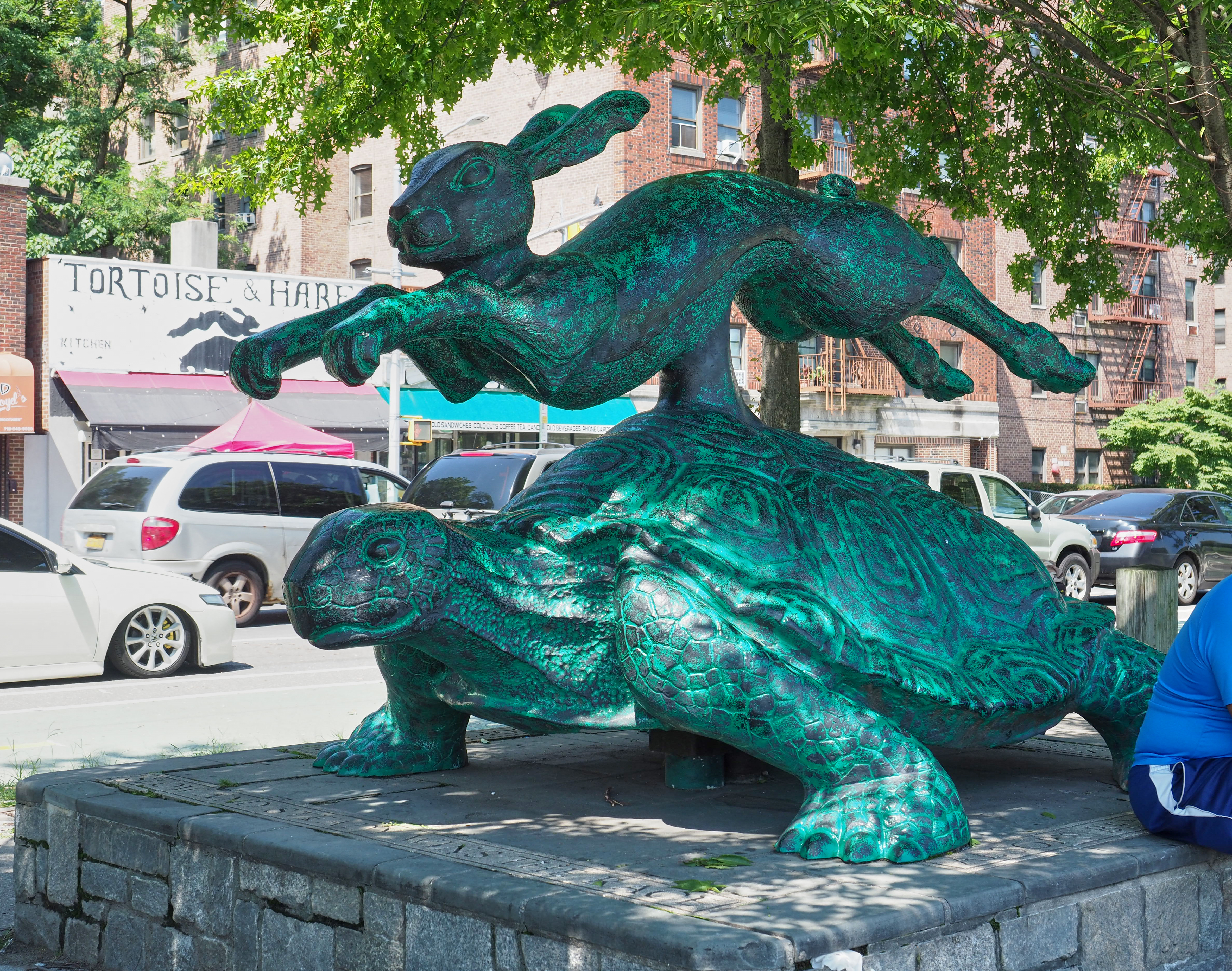 Sculpture on the Broadway side of Van Cortlandt Park